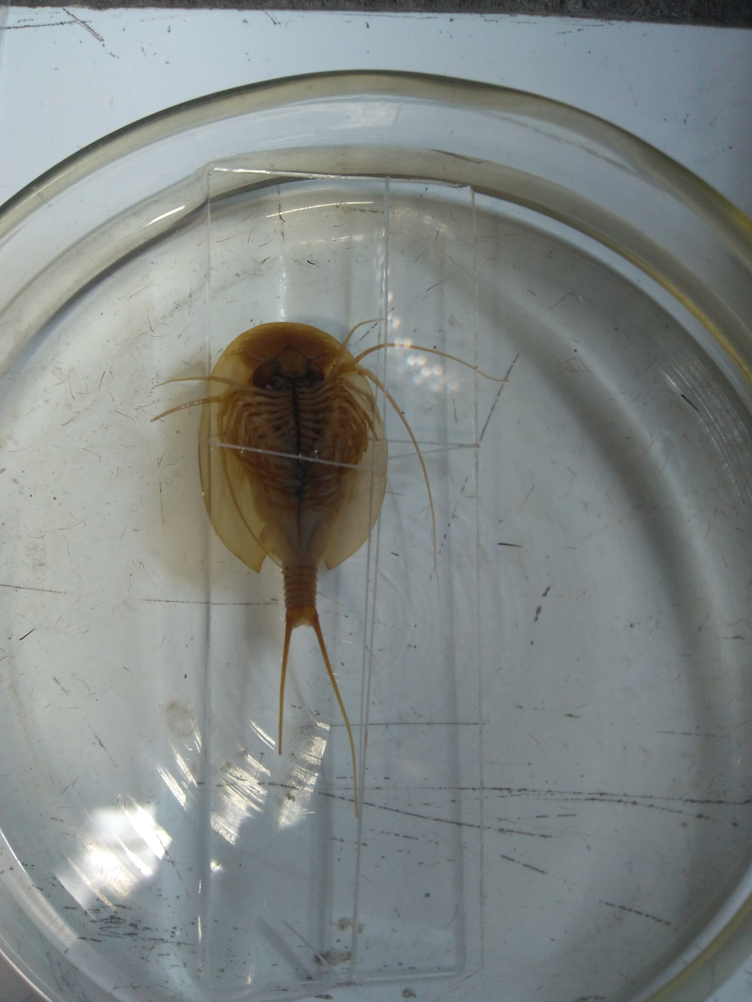 Image focused on the Notostraca belly, using a magnifying glass